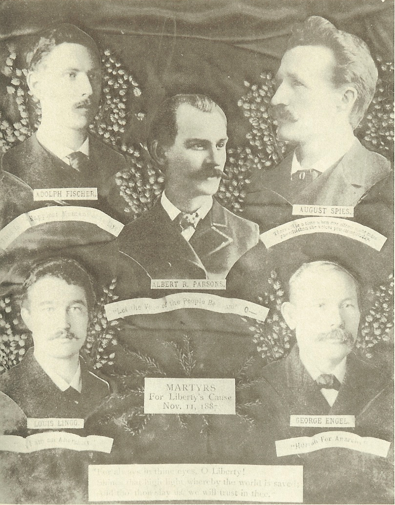 The Haymarket Martyrs This image has faded a great deal over time, but the type face can still be read through close inspection. The type lists each man and a respective quote, several of which were their final words quoted at their execution. Adolf Fisher, "This is the happiest moment of my life." August Spies, "There will be a time when our silence will be more powerful than the voices you strangle today." Albert R. Parsons, "Let the Voice of the People Be Heard!" Louis Lingg, "I am an Anarchist." George Engel, ""Hurrah For Anarchy!" The central type reads: "MARTYRS For Liberty's Cause Nov. 11, 1887" The lowest type is a quote from Proudhon: "For always in thine eyes, O liberty! Shines that high light, whereby the world is saved; And though thou slay us, we will trust in thee."